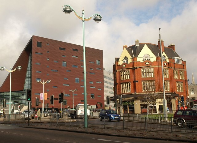 Buildings at Drake Circus, Plymouth. A view from Charles Street across the former roundabout. On the left is 552382, originally to be called the Reynolds building after the locally-born painter Sir Joshua Reynolds, and under construction when the vice-chancellor died on New Year's Day, 2007, after which it was named after him. Designed by the Danish firm Henning Larsen Architects, it straddles a gridline; to the west (away from the camera) it crosses into SX4754. On the right is a much altered fragment of Victorian Plymouth, with the Roundabout pub on the ground floor.